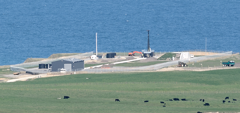 The site of Rocket Labs Launch Complex 1 on the Mahia Peninsula, Hawke's Bay, New Zealand. The Launch Platform (tall black structure) has just been installed in the last few weeks, in preparation for the rockets test launch in a few months time. The launch site is the first private orbital launch site in the world, and is set to enable the highest frequency of space launches in history.